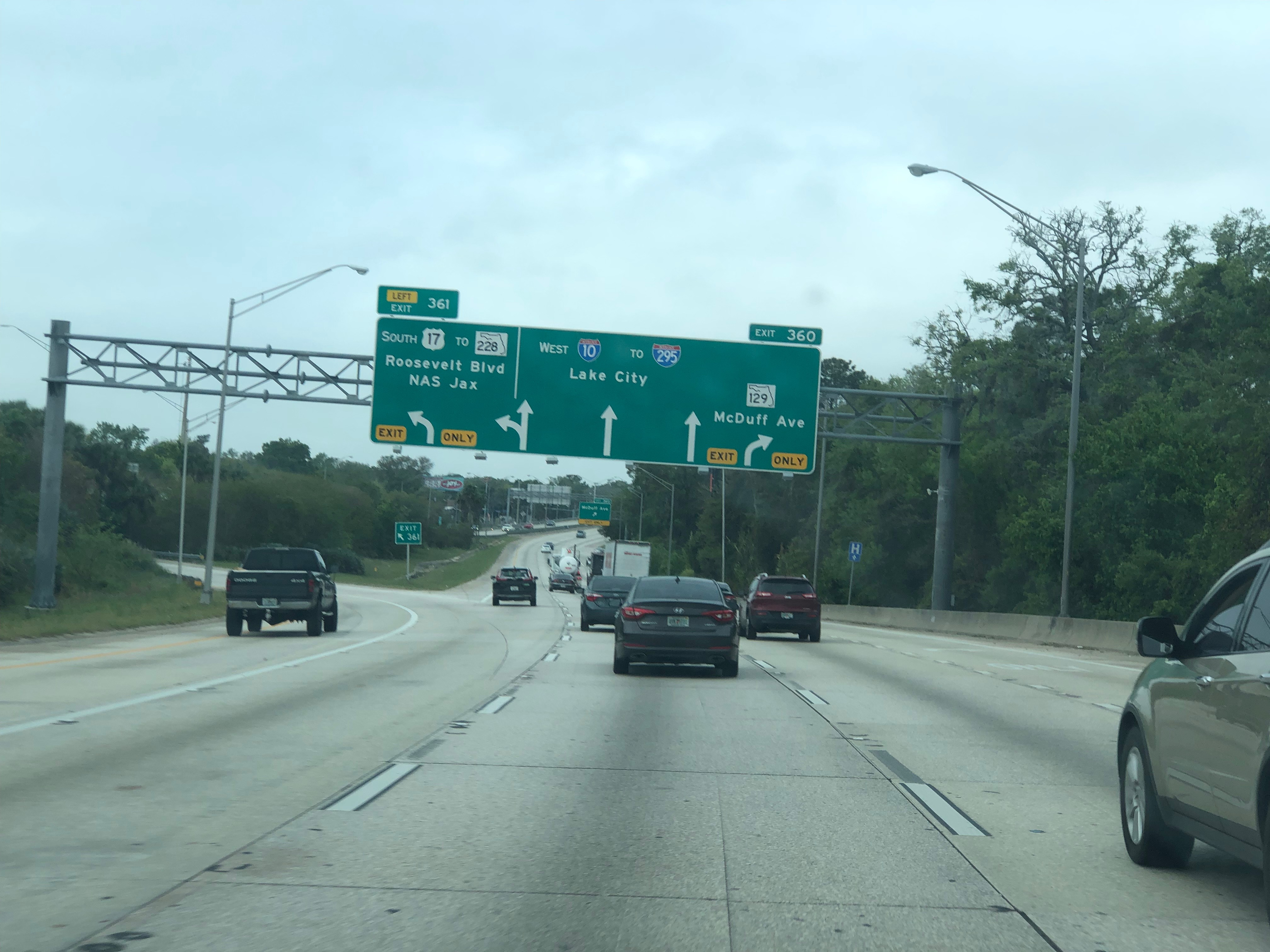 I-10 leaving Jacksonville with junction to US 17.